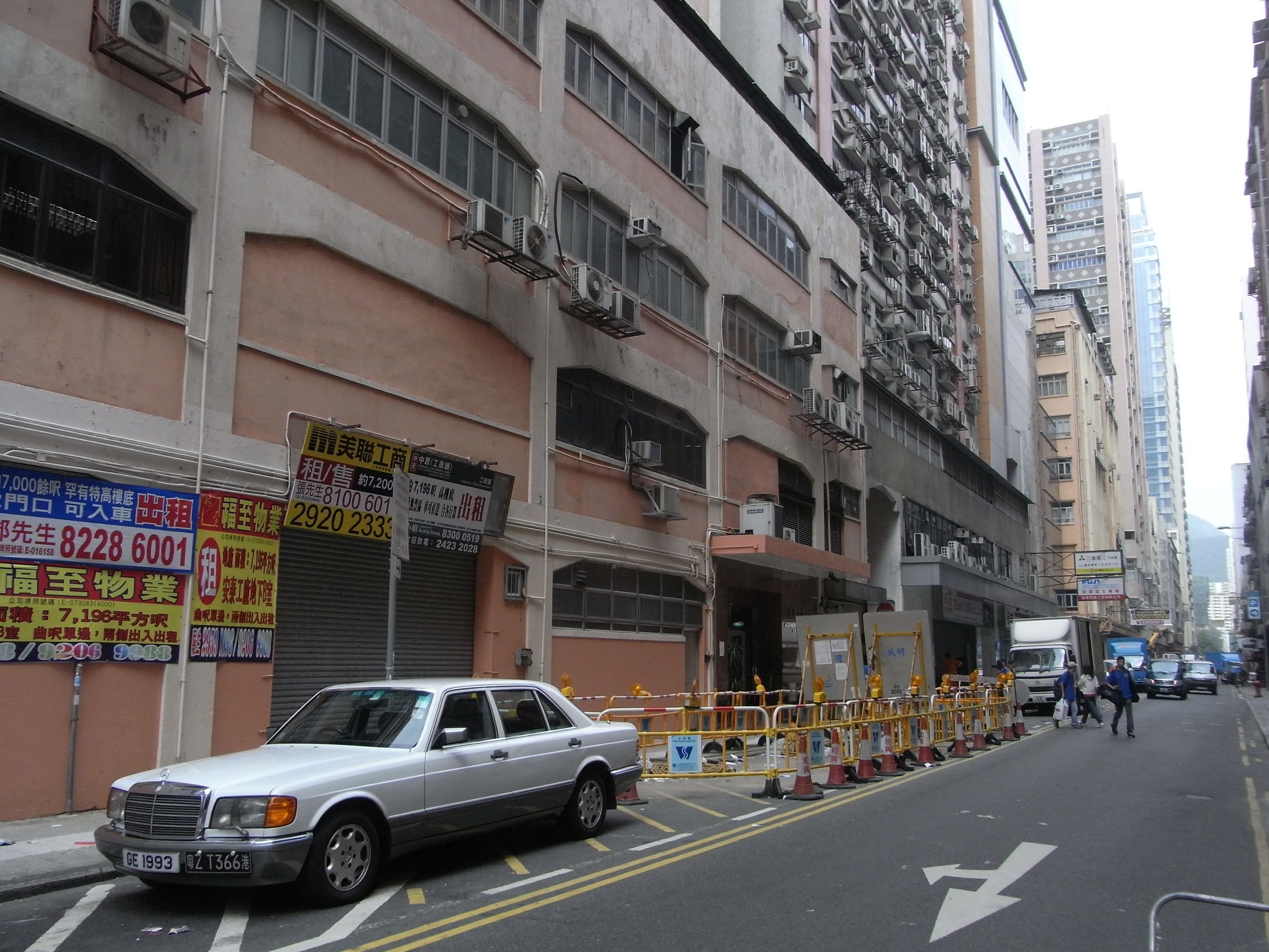 長沙灣 永康街